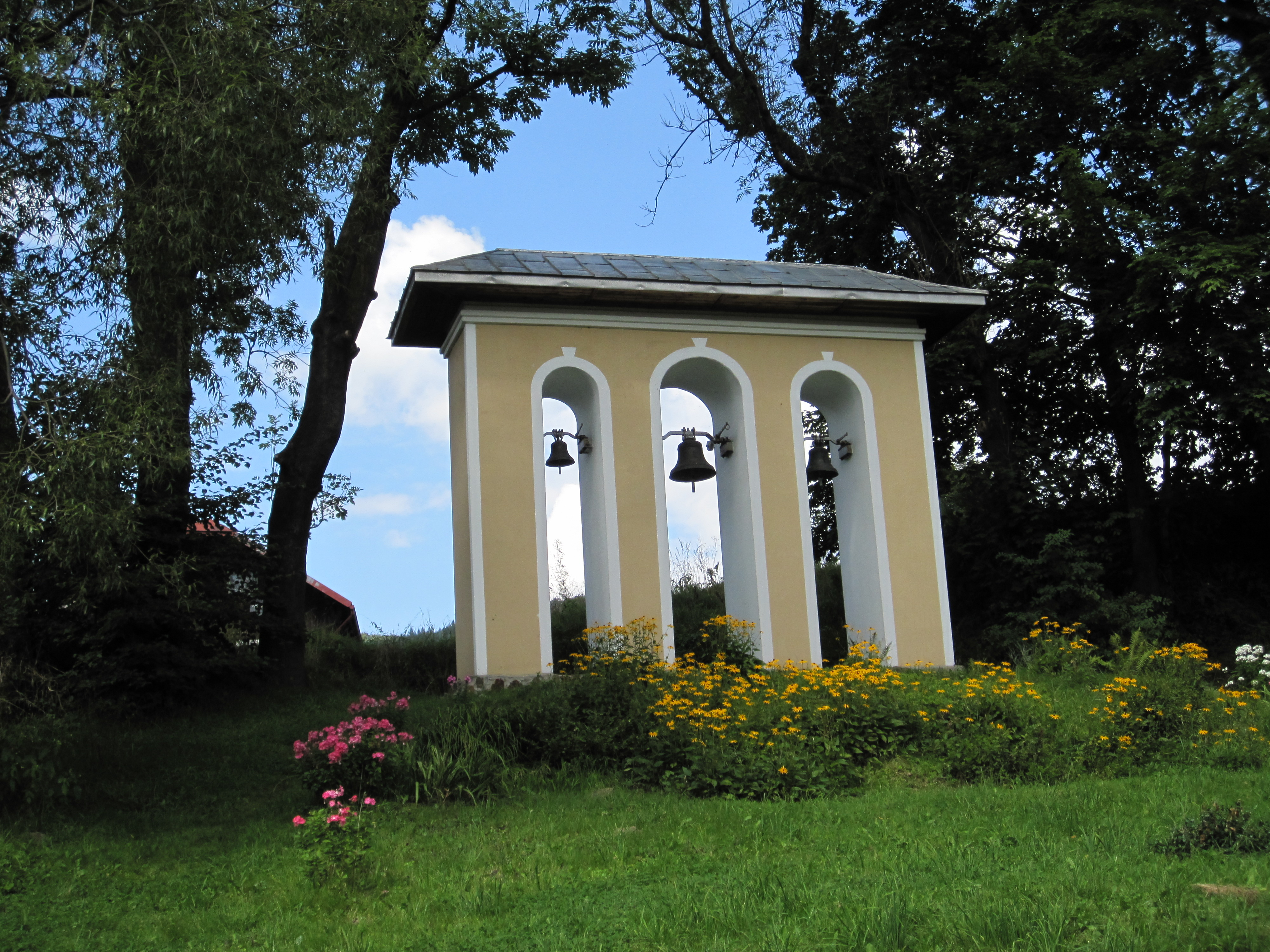 Greek Catholic Church in Ustrzyki Dolne - Belfry (XIX century)